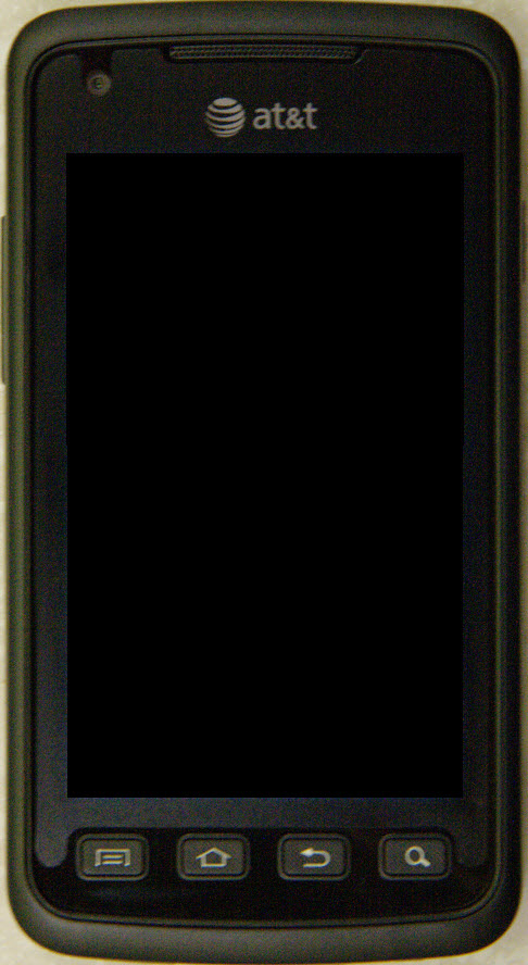 The front of a Samsung Rugby Smart SGH-i847 with a screen protector installed, featuring the AT&T "Rethink Possible" boot splash screen